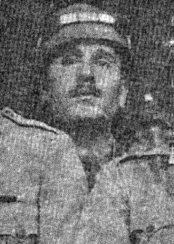 Former Iraqi Prime minister Yasin al-Hashimi